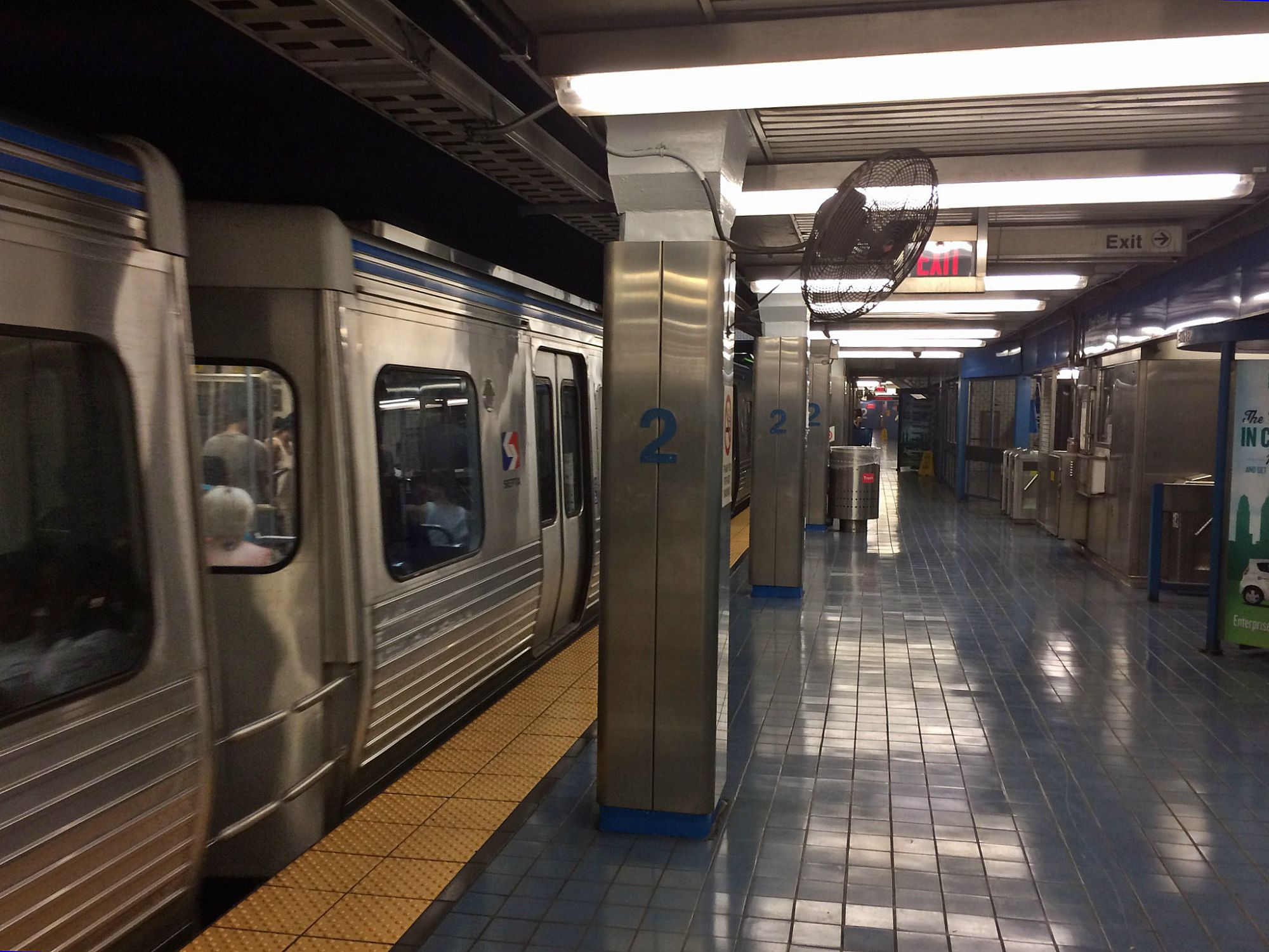 SEPTA 2nd Street Station Platform